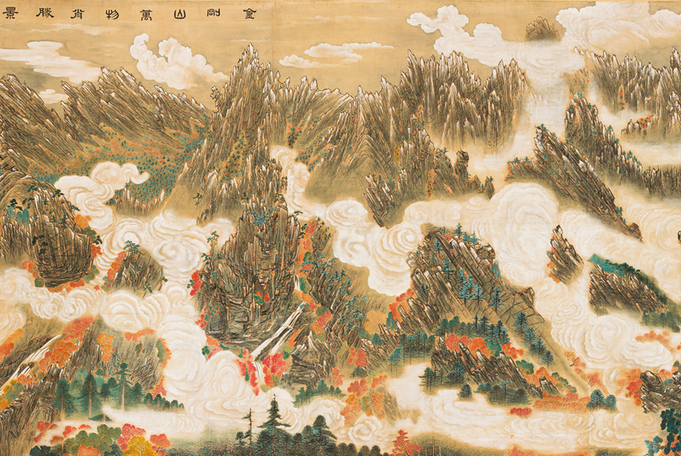 Extraordinary Views of Manmulsang, Geumgangsan Mountain by Haegang Kim Gyu-jin, 1920